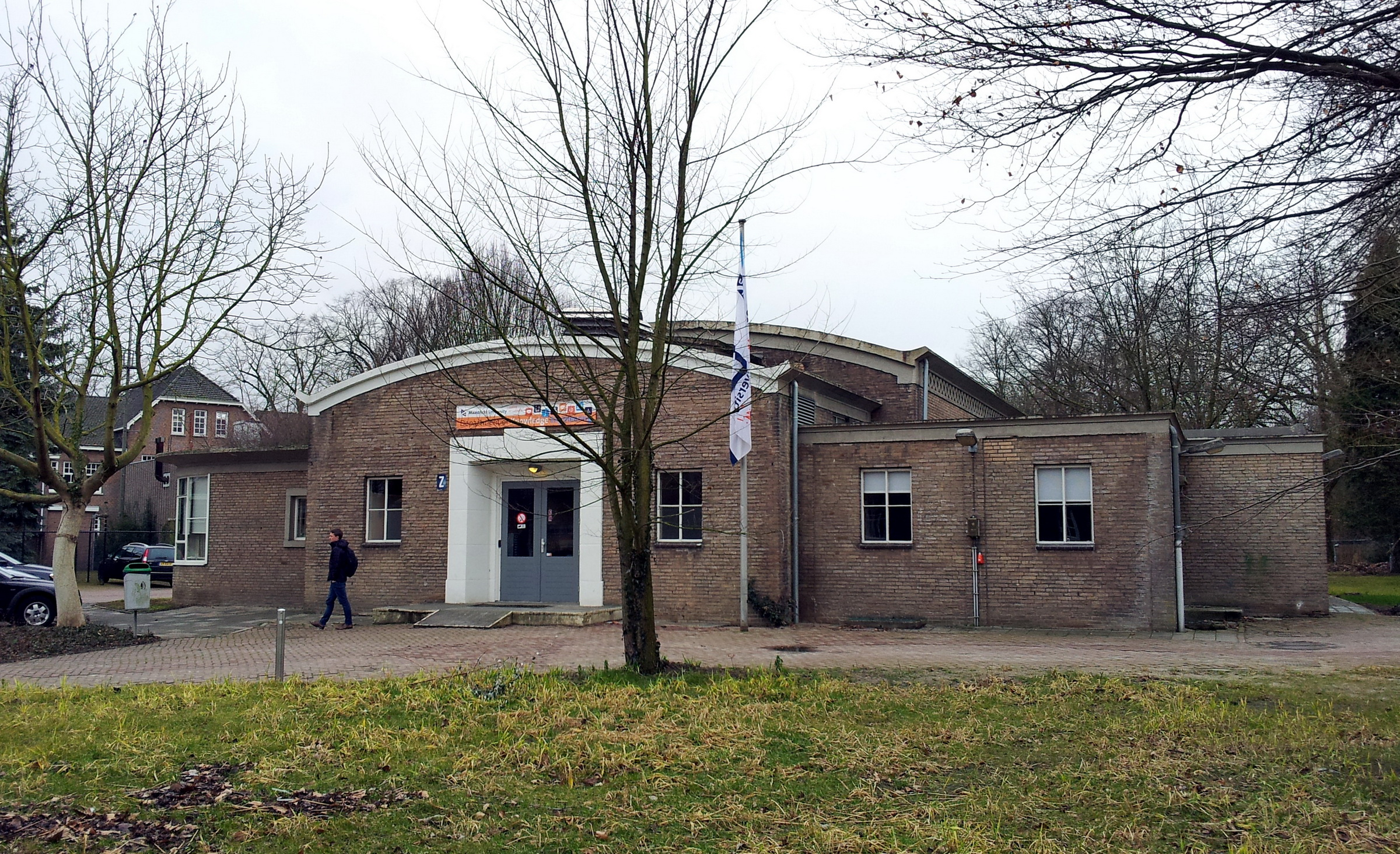 Maastricht, the Netherlands. View of the former Tapijnkazerne military barracks, now in use by the department of knowledge engineering of the University of Maastricht.